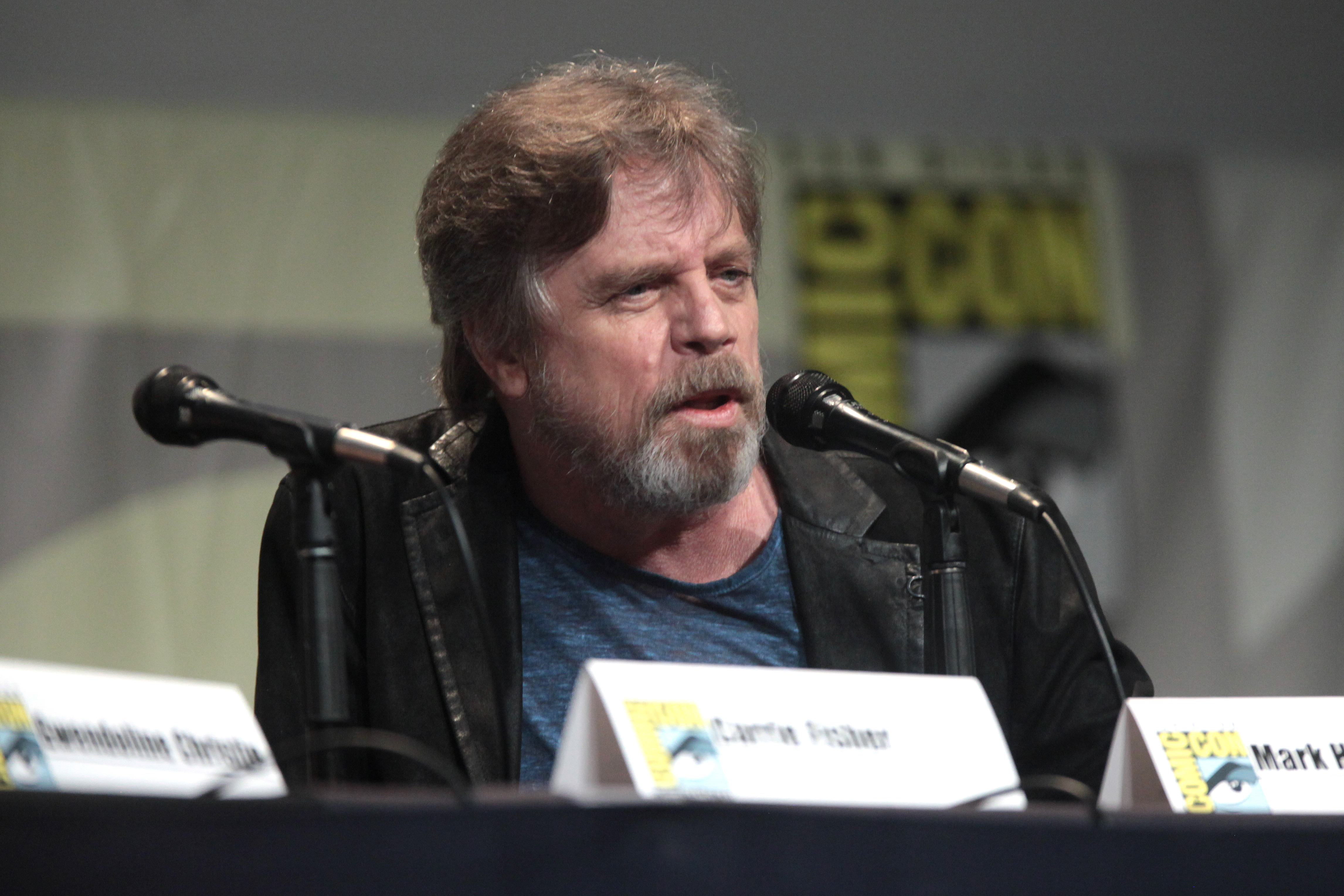 Mark Hamill speaking at the 2015 San Diego Comic Con International, for "Star Wars: The Force Awakens", at the San Diego Convention Center in San Diego, California.